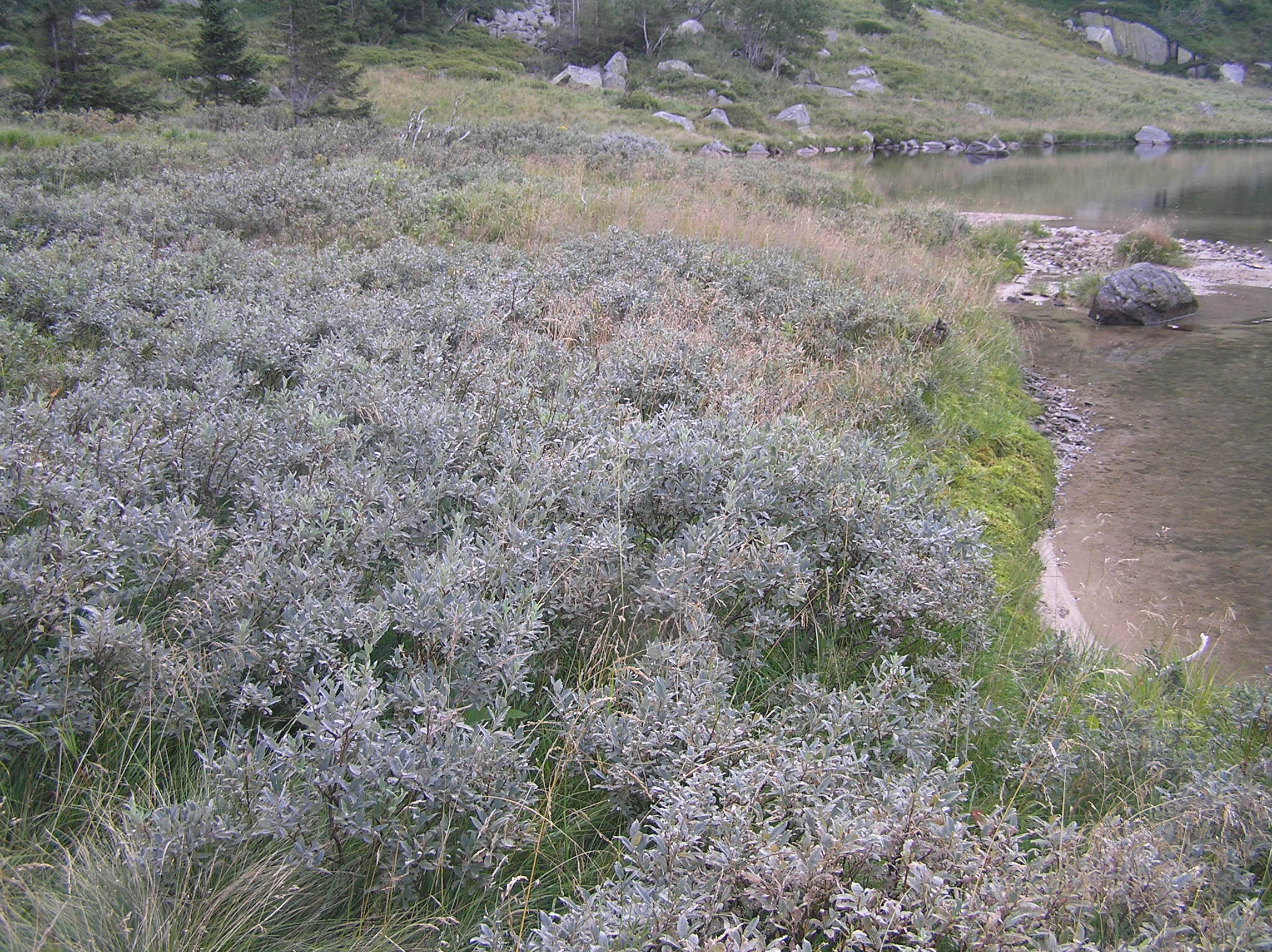 Salix lapponum, near the lake Mały Staw, Karkonosze, Poland